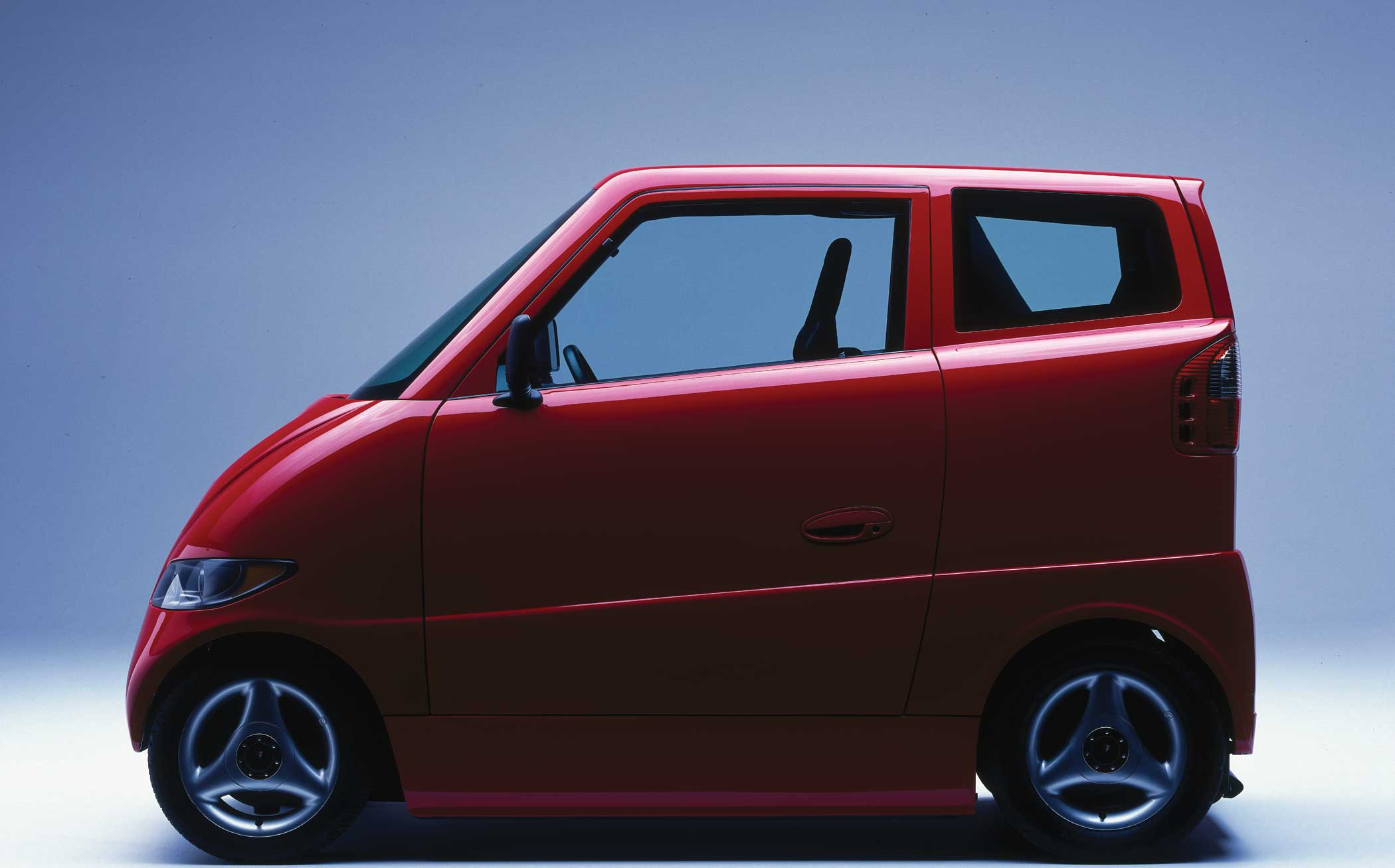 Commuter Cars Tango T600 Side View used by permission of company president Rick Woodbury, reported by User:D0li0